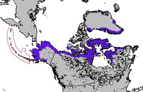 Map of Eskimo-Aleut language family